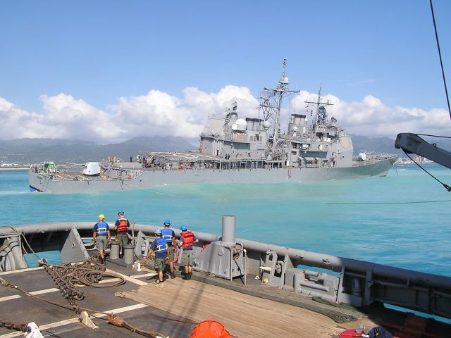 Military Sealift Command rescue and salvage ship USNS Salvor and other vessels helped to successfully free the grounded USS Port Royal off Hawaii in February 2009.